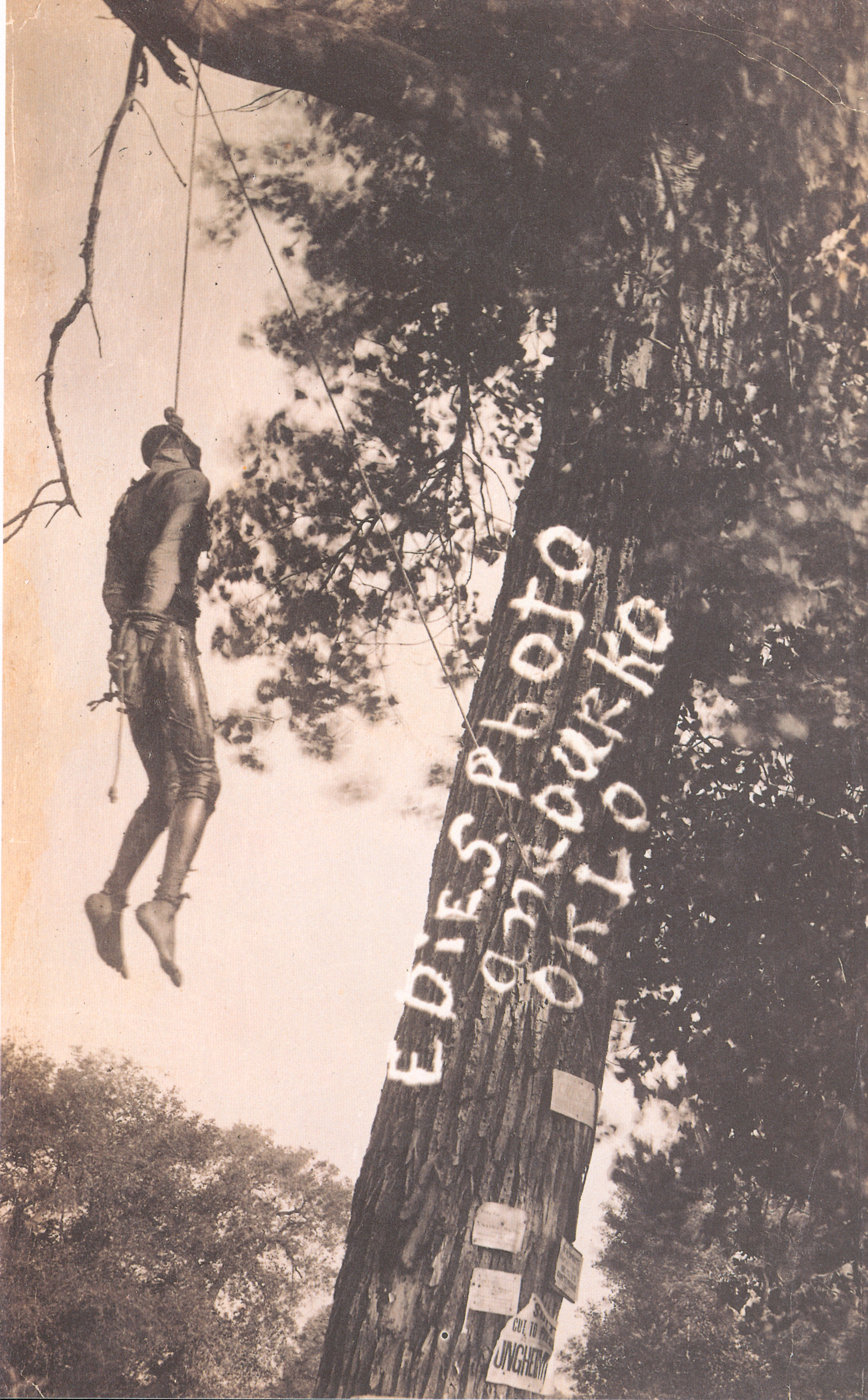 "The Lynching of Bennie Simmons, soaked in coal oil before being set on fire. June 13, 1913, Anadarko, Oklahoma. Gelatin silver paint. Real photo postcard. 3 1/2 x 5 1/2" Etched into negative: 'Edies Photo Anadarko Oklo.' Purchased in Oklahoma." (Info quoted from p. 166.)